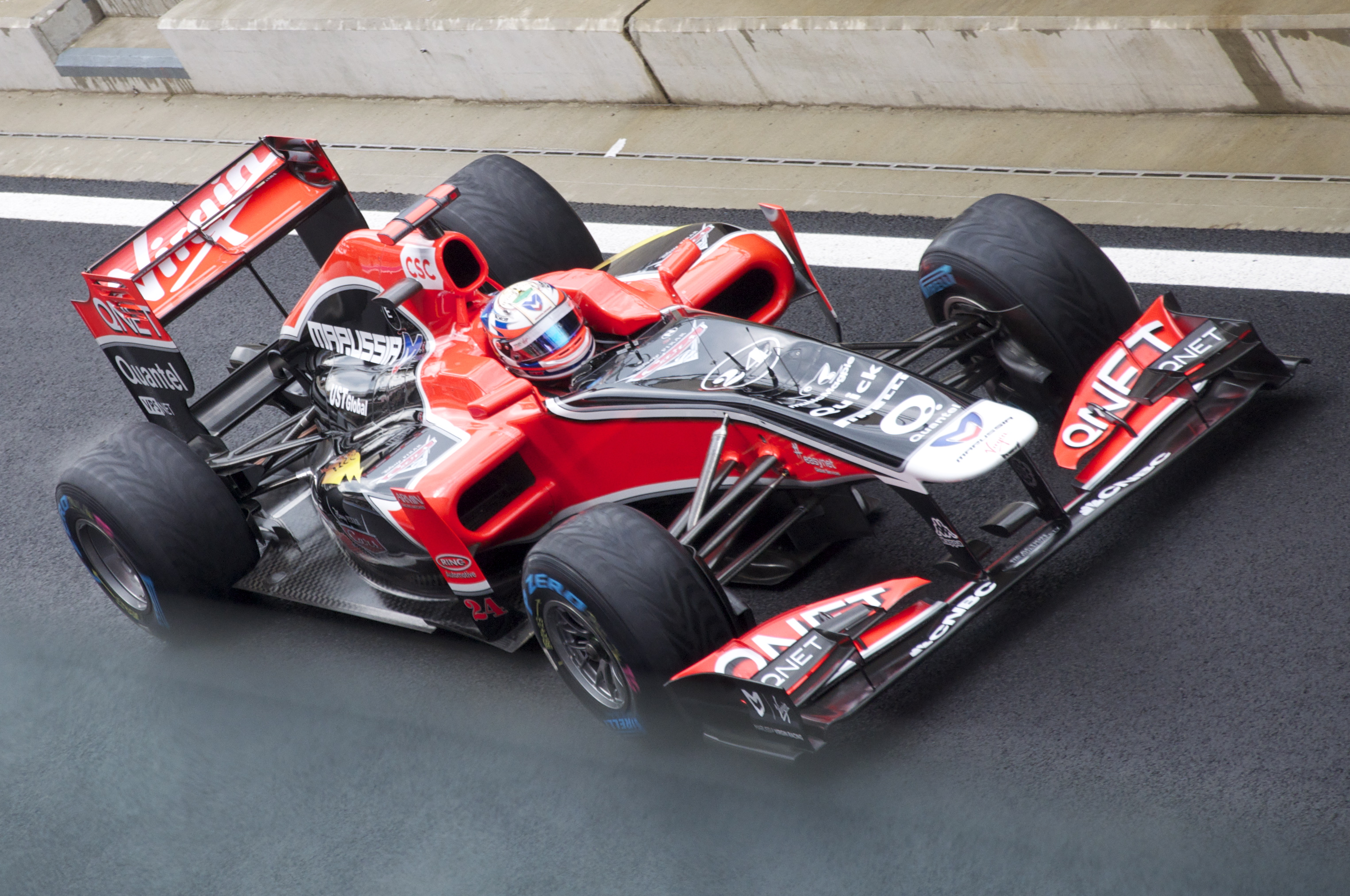 Timo Glock Marussia MVR02 at 2011 British GP